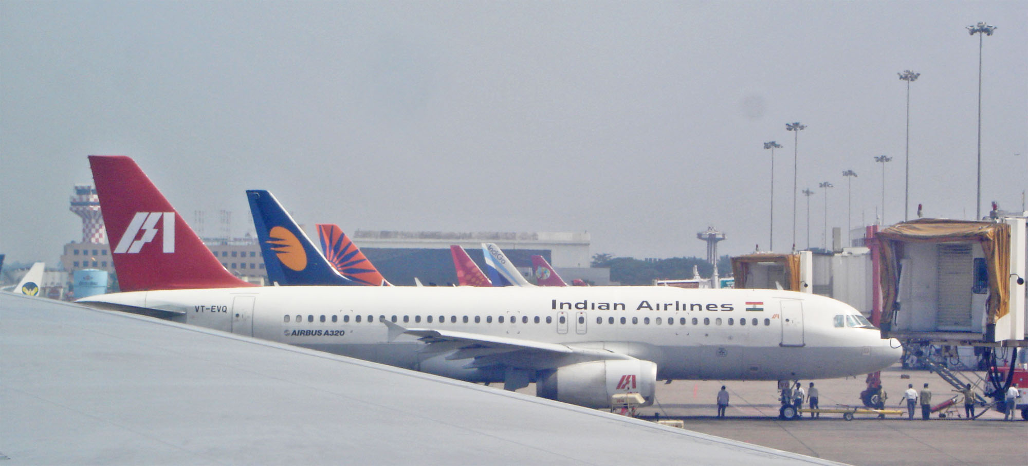 A view of the ramp of the Domestic side of Chennai Airport. Visible tails from left: Air Deccan, Indian Airlines(old scheme), Jet Airways, Indian Airlines(new scheme), SpiceJet, IndiGo, Kingfisher Airlines